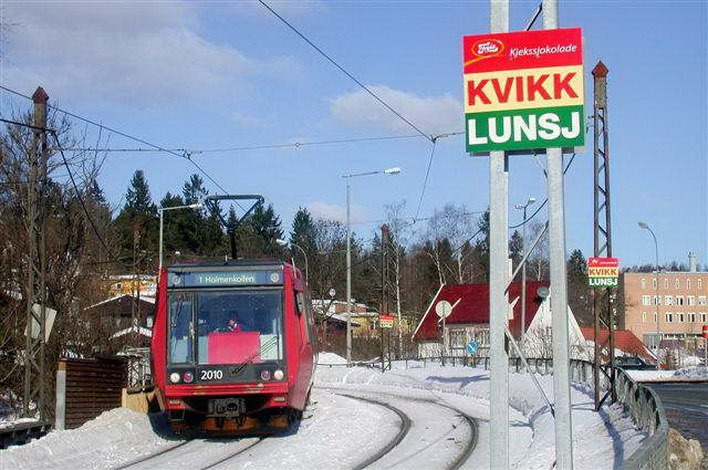 Oslo Metro T2010 on the Holmenkollen Line